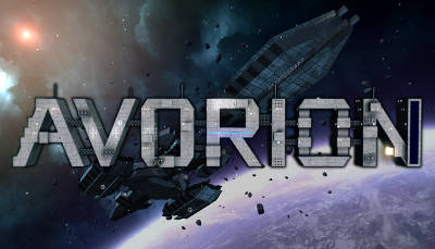 This is the title art for the video game Avorion by Boxelware GmbH